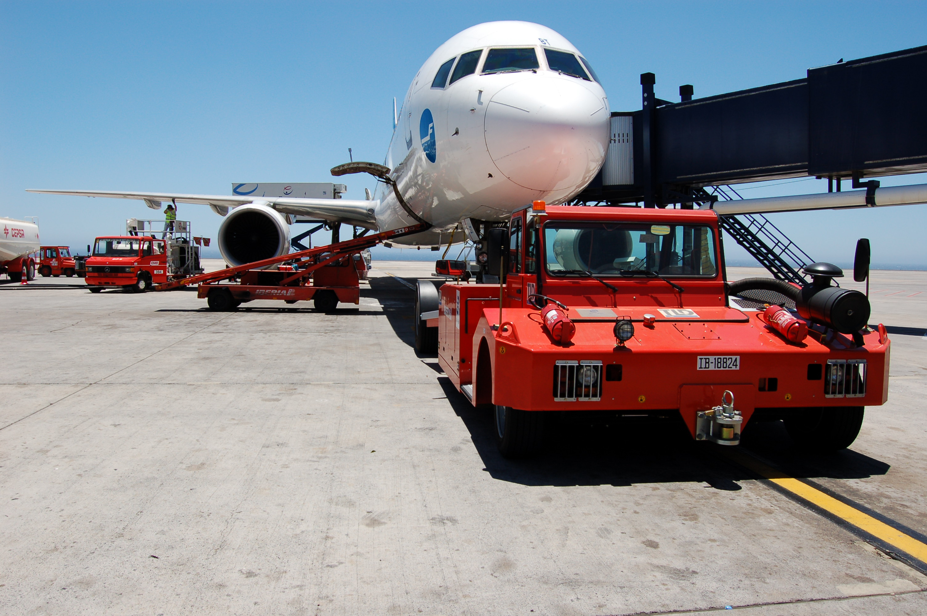 Pictures taken at Tenerife South Airport GCTS-TFS Finnair OH-LBT at GCTS/TFS